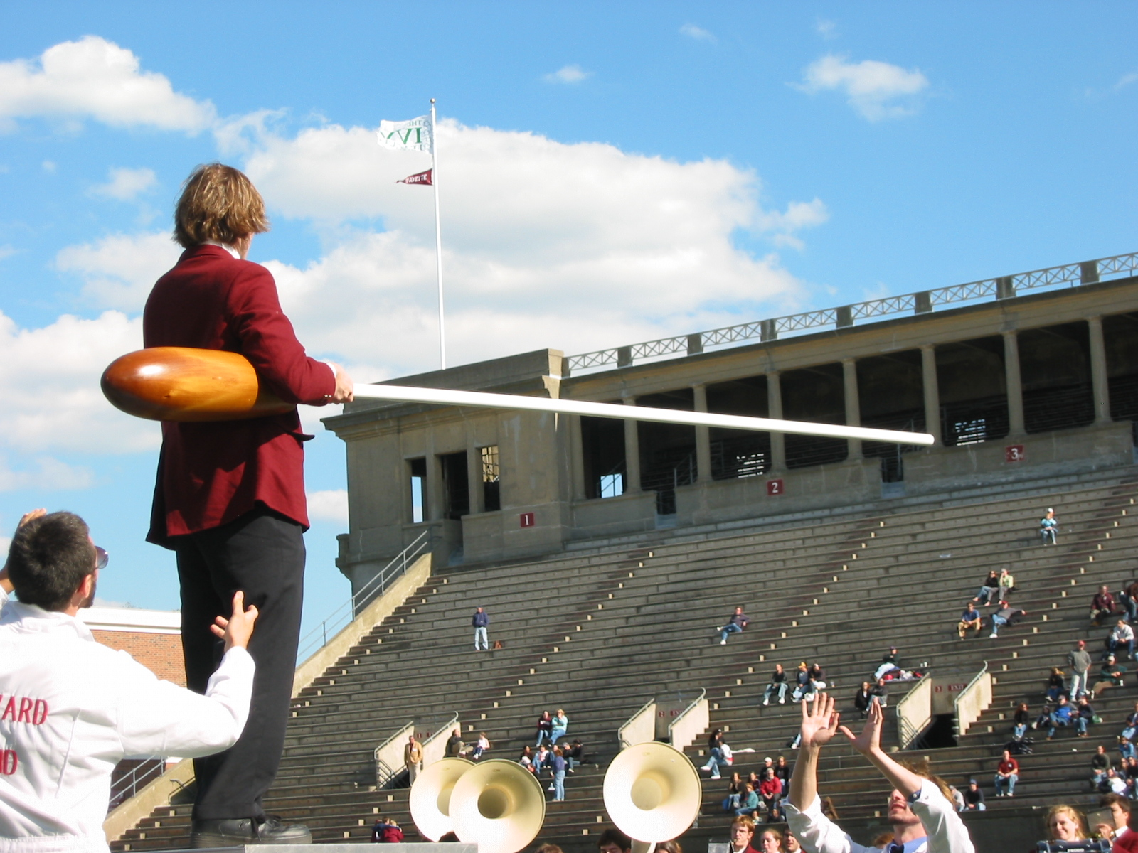 Photo credit Karen Morse. [1]